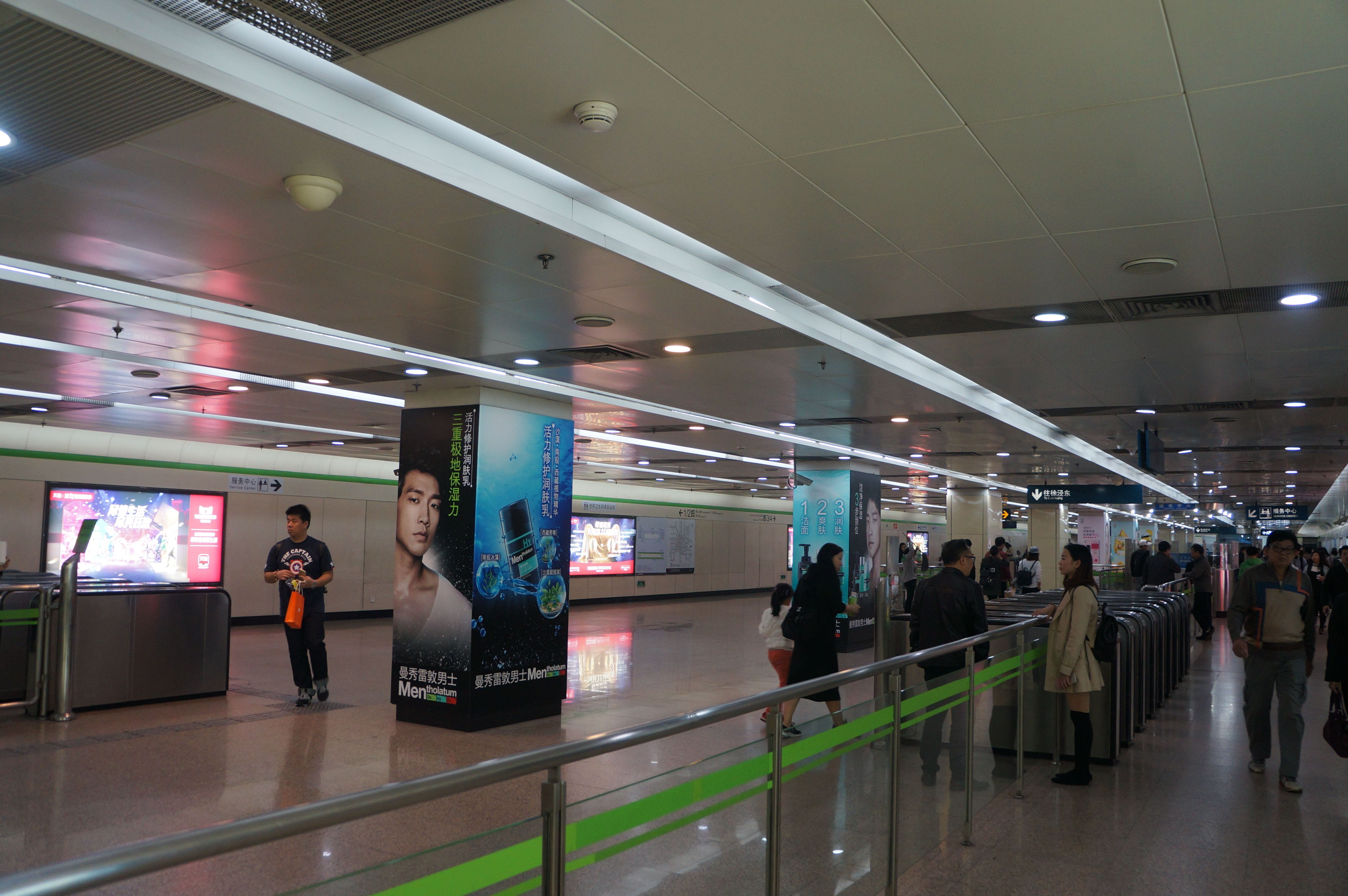 201611 Concourse of Loushanguan Road Station